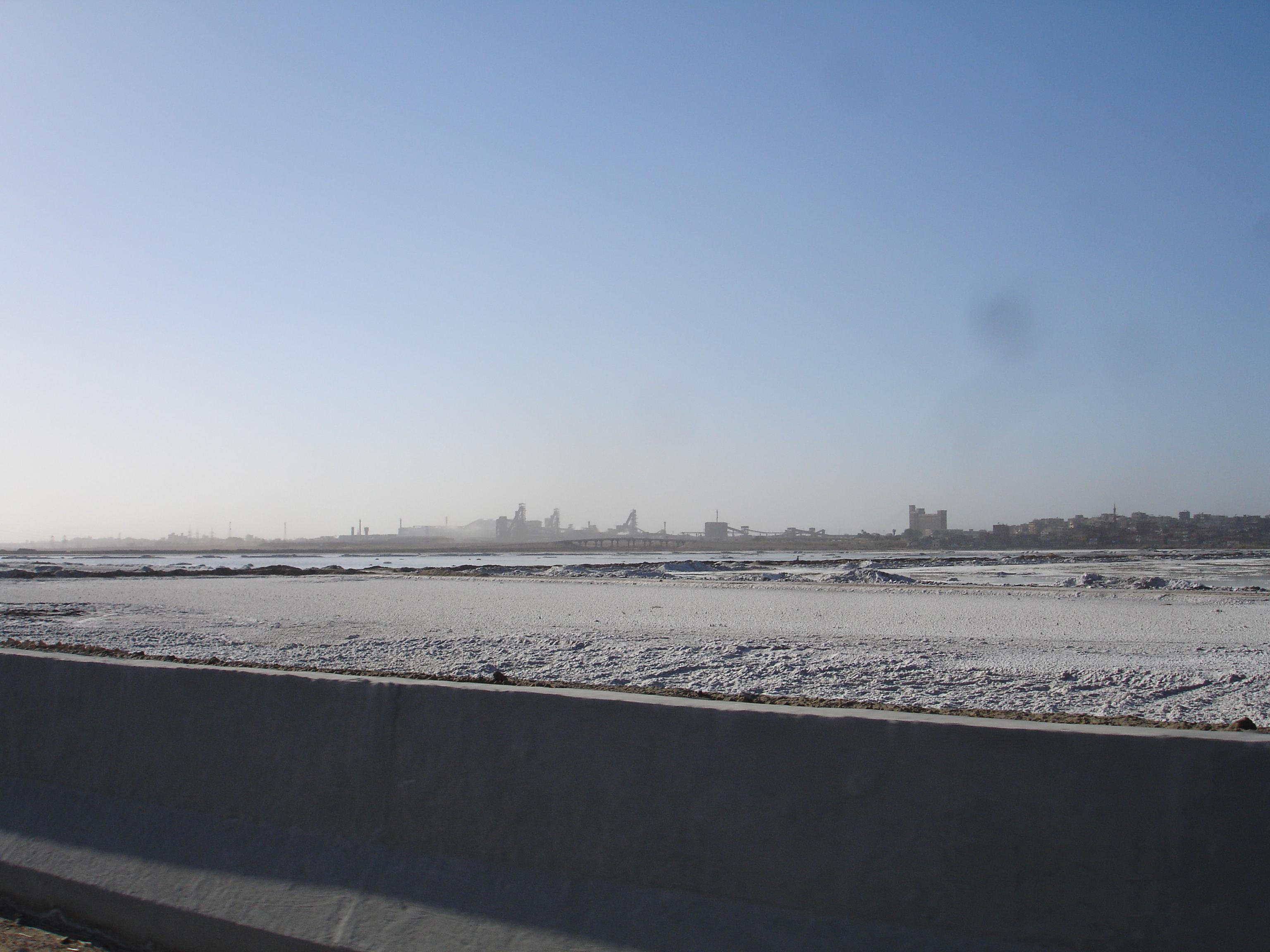 Dried out section of Lake Mariout, Alexandria, Egypt, for salt refining industry.